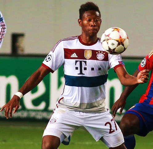 David Alaba